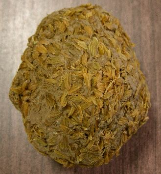 Century egg